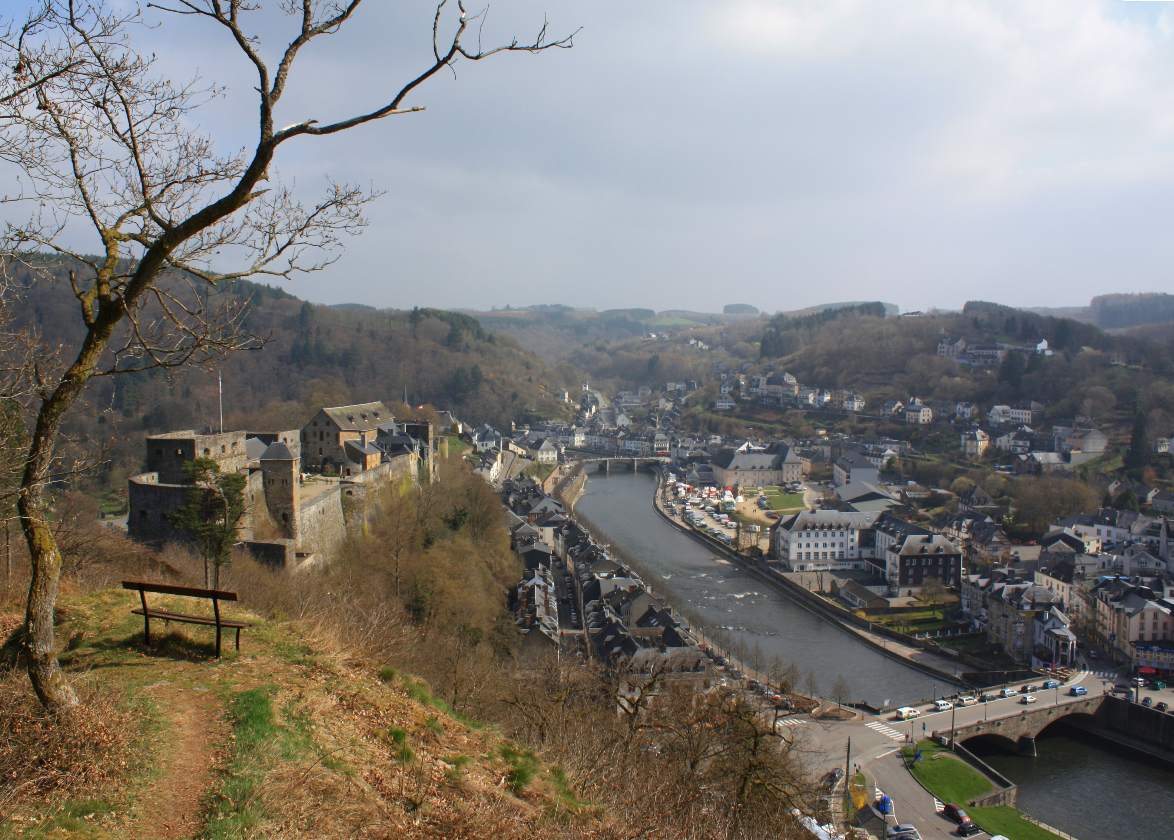 Castle of Bouillon with the city in the background